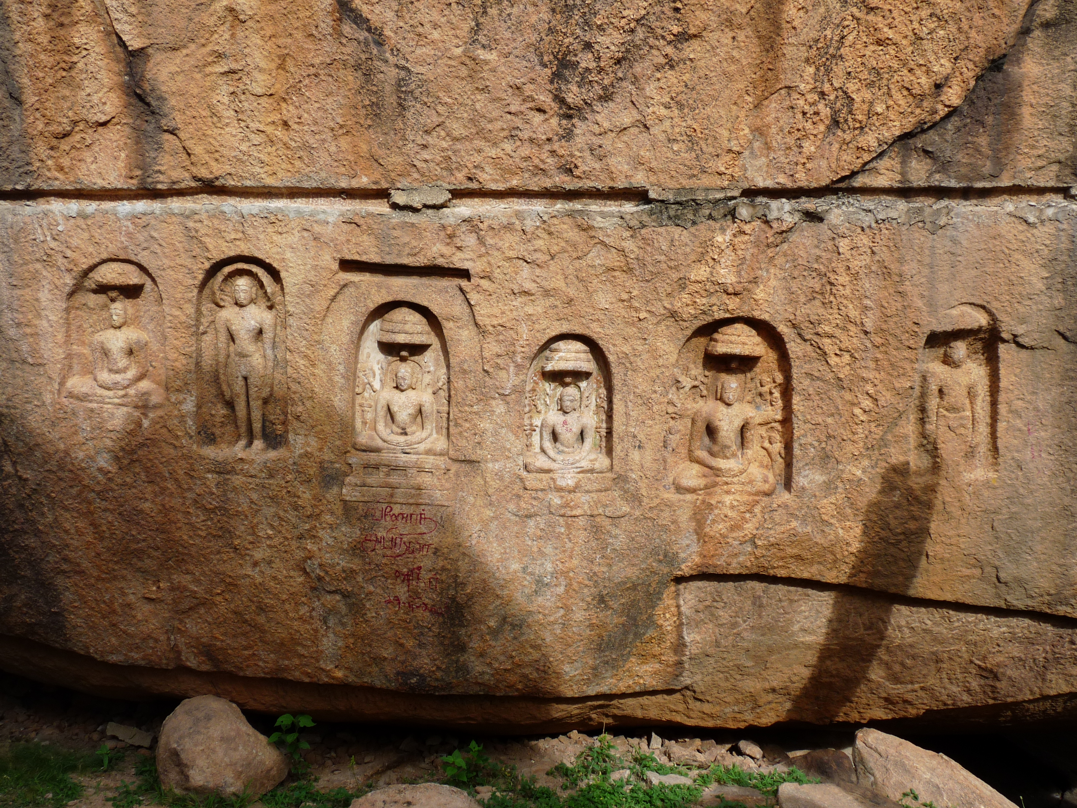 Kizhalavau rocK cut caves with Bhrami inscriptions, and jain sculptures-Jain sculptures